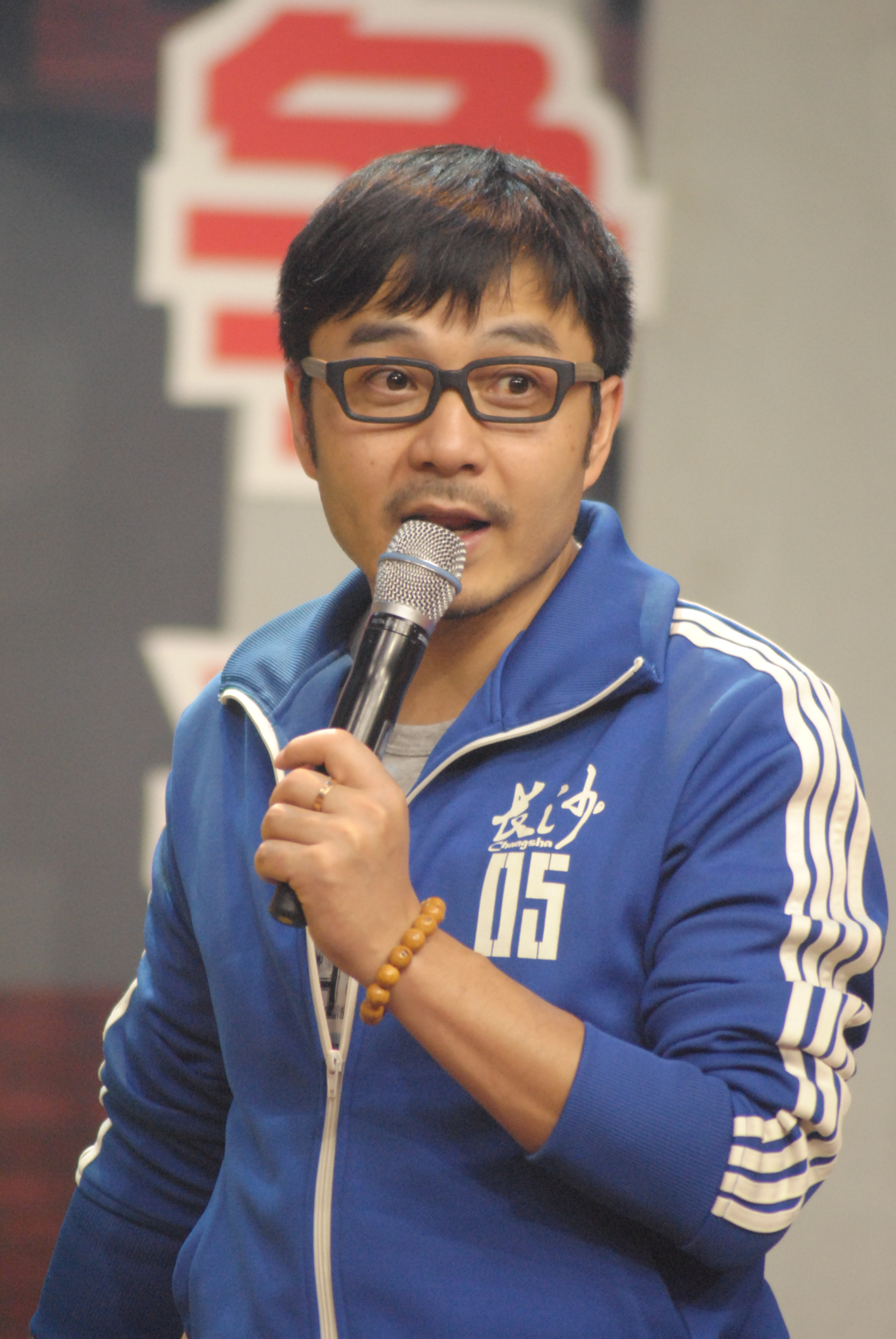 Wang Han,Hunan TV famous talk-show host.